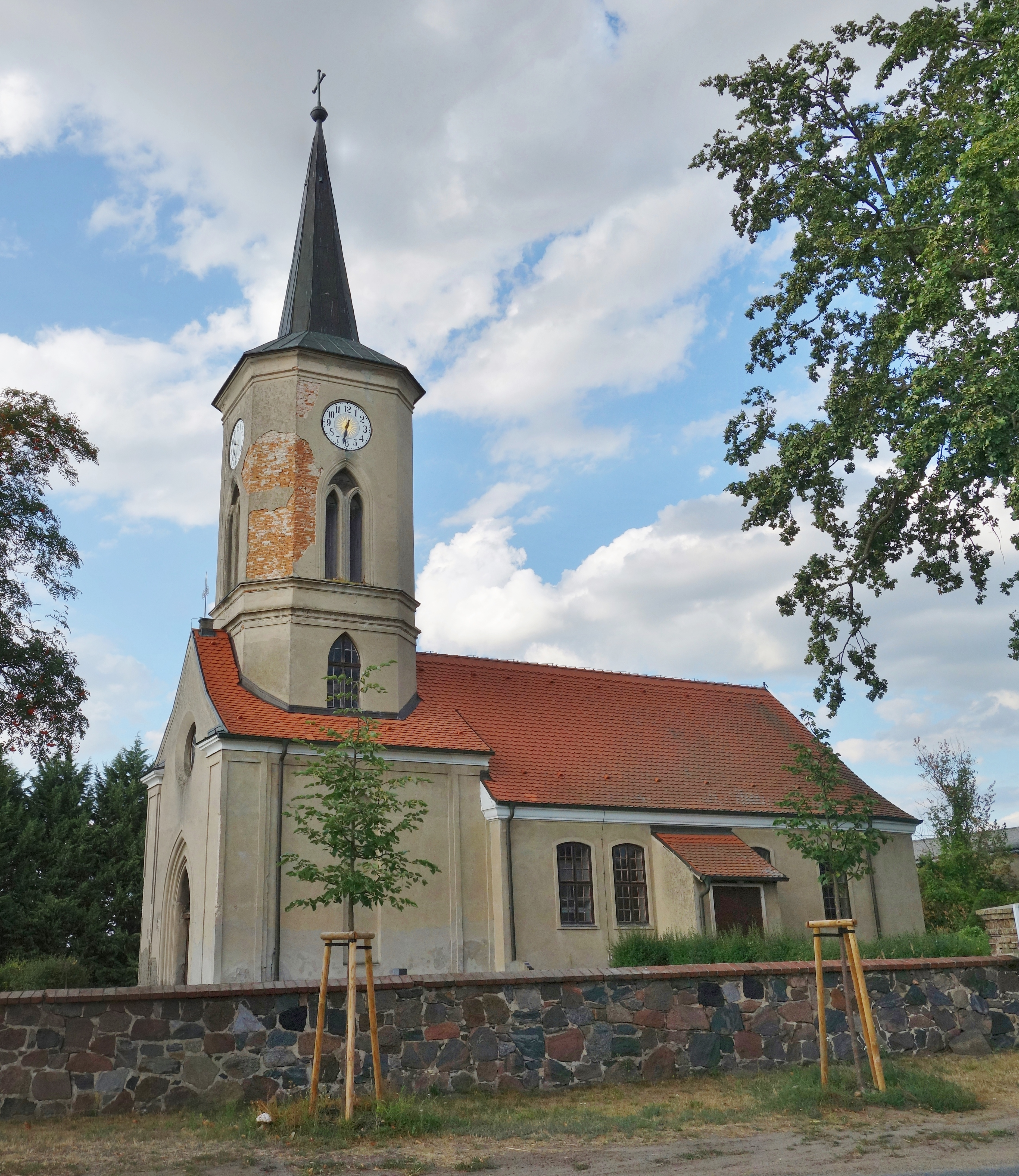 South-south-western view of the church in Krielow , Groß Kreutz (Havel) municipality , Potsdam-Mittelmark district, Brandenburg state, Germany.